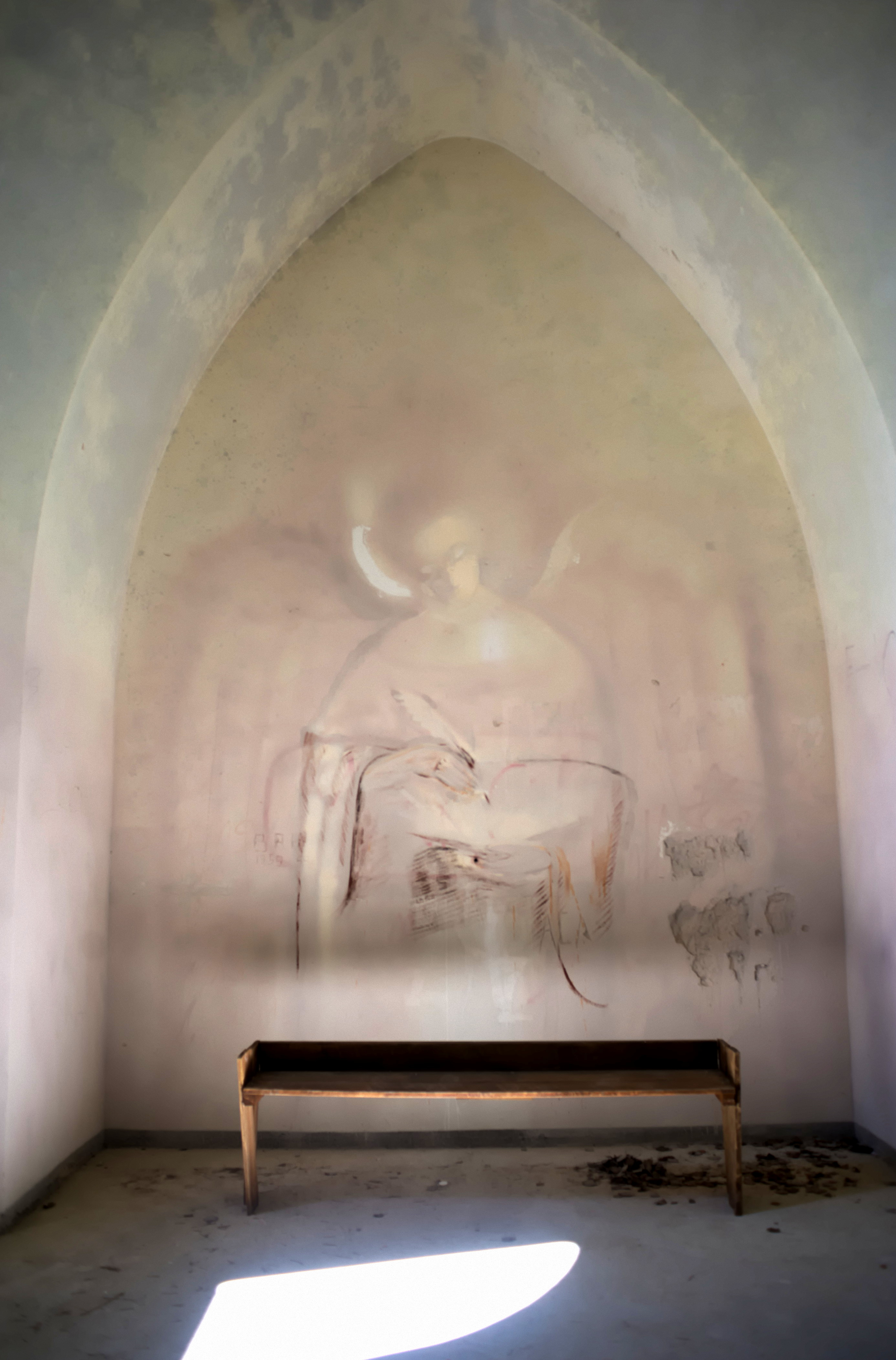 Lumivaara Church May 14th 2016